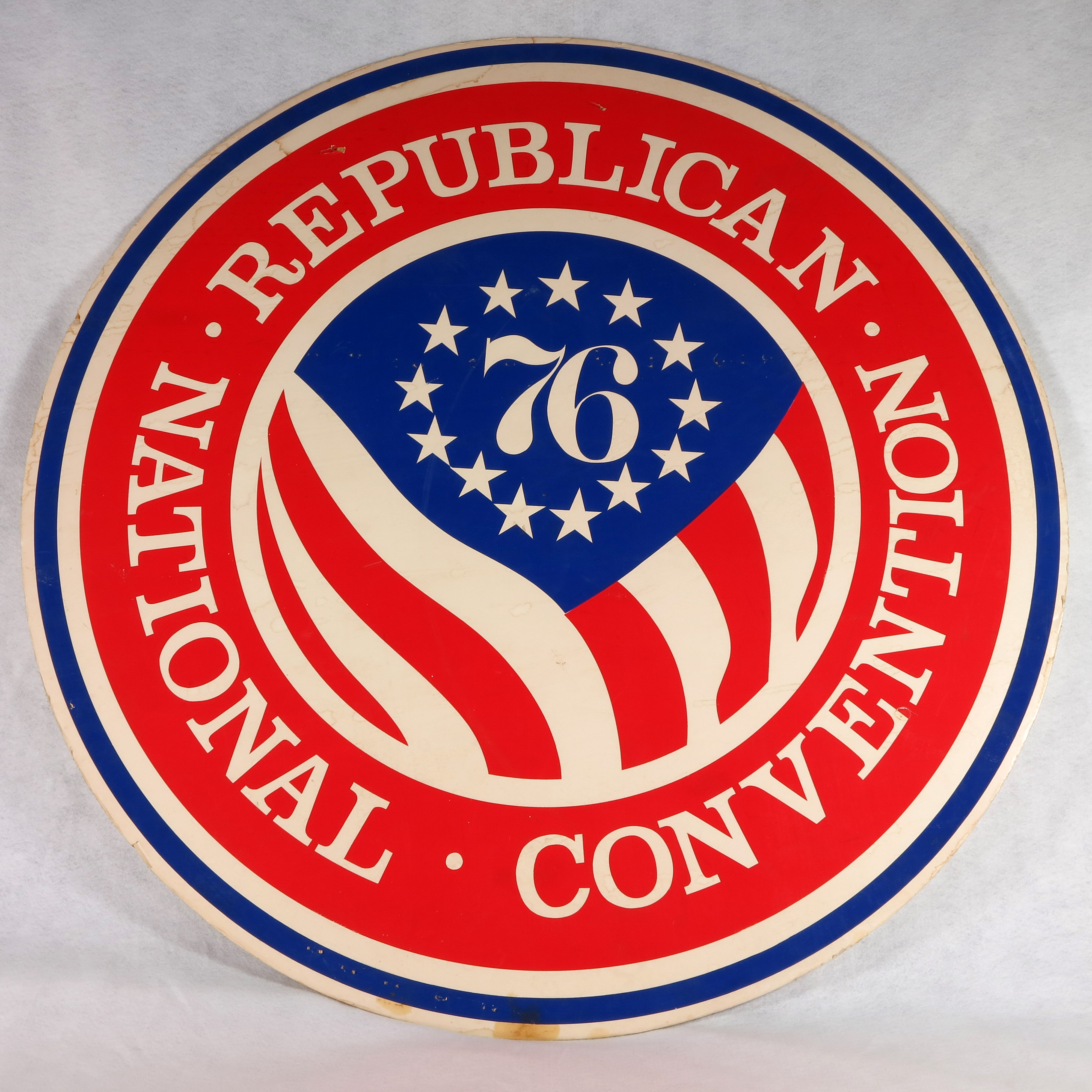 Oversized circular logo mounted on foam used for the 1976 Republican National Convention. The logo includes a "76" surrounded by stars in white on blue with "Republican National Convention" in white on red around the edge. This disk was suspended on the background behind the main podium at the convention.